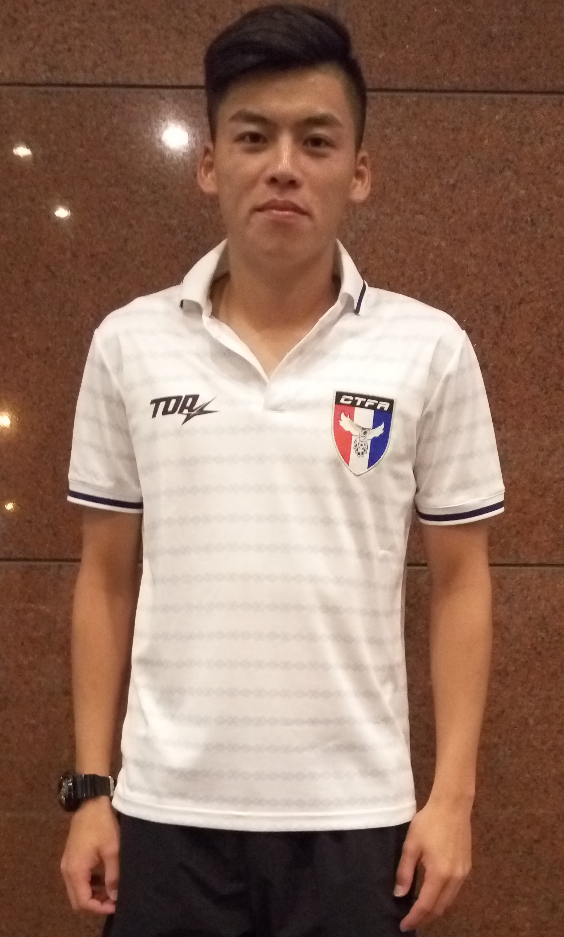 Taiwan Football Player Weng Wei-Pin